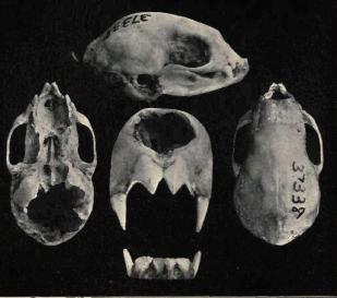 Hairy-legged Vampire Bat skull